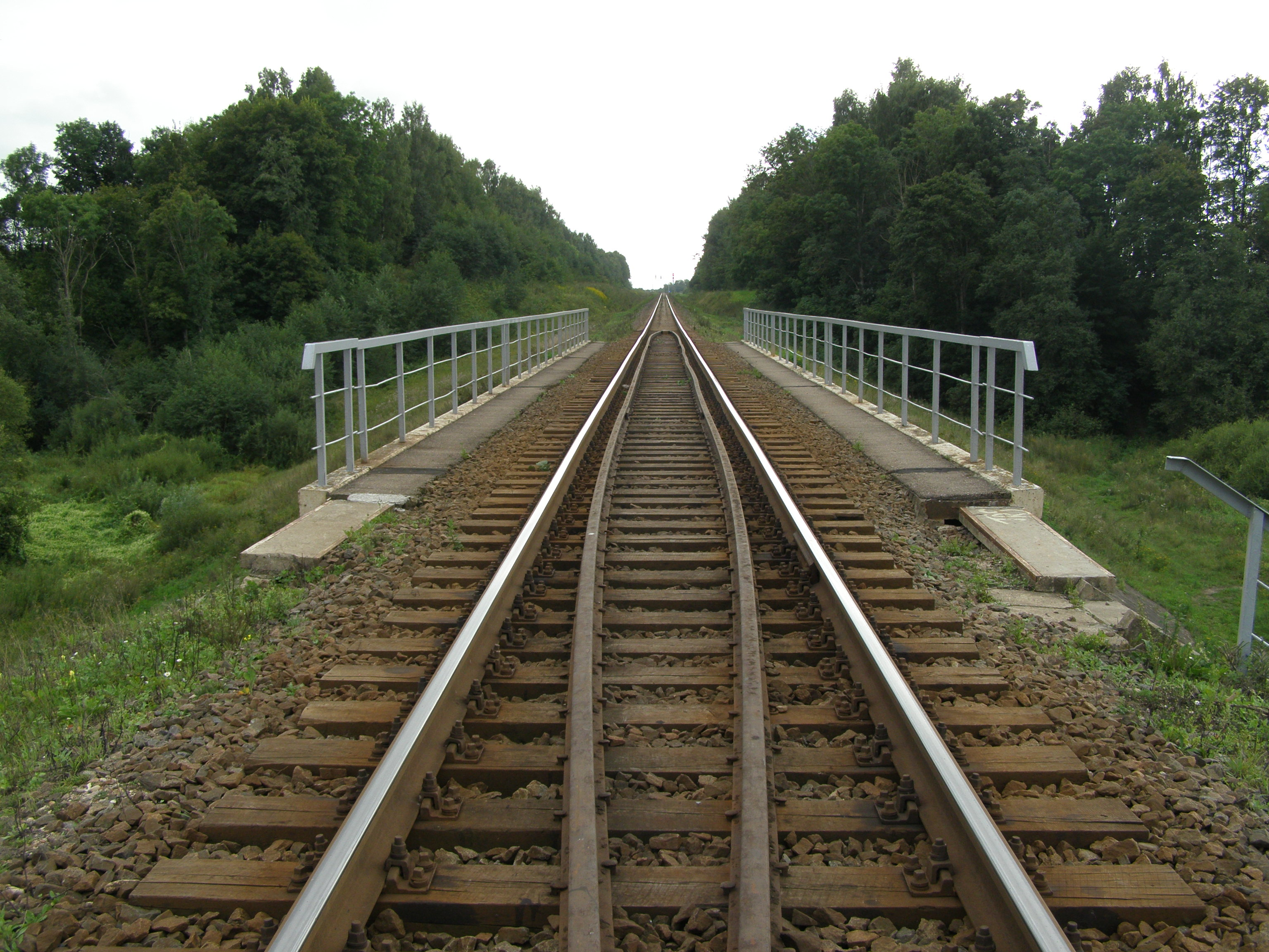 Bajorai, Kretinga district, LithuaniaLietuvių: Bajorų geležinkelio tilto važiuojamoji dalis, Kretingos rajonas, Lietuva